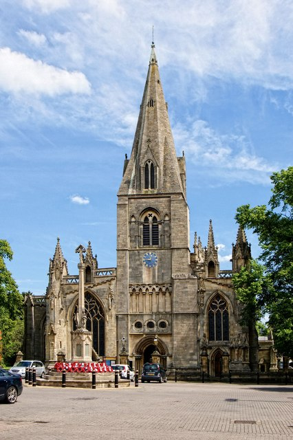 War memorial and St Denys' parish church in Sleaford, Lincolnshire